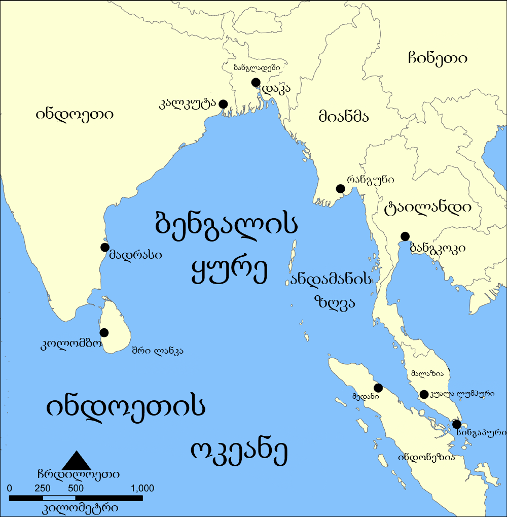 A map showing the location of the Bay of Bengal and the Andaman Sea in southeast Asia. Created by NormanEinstein, September 15, 2005.